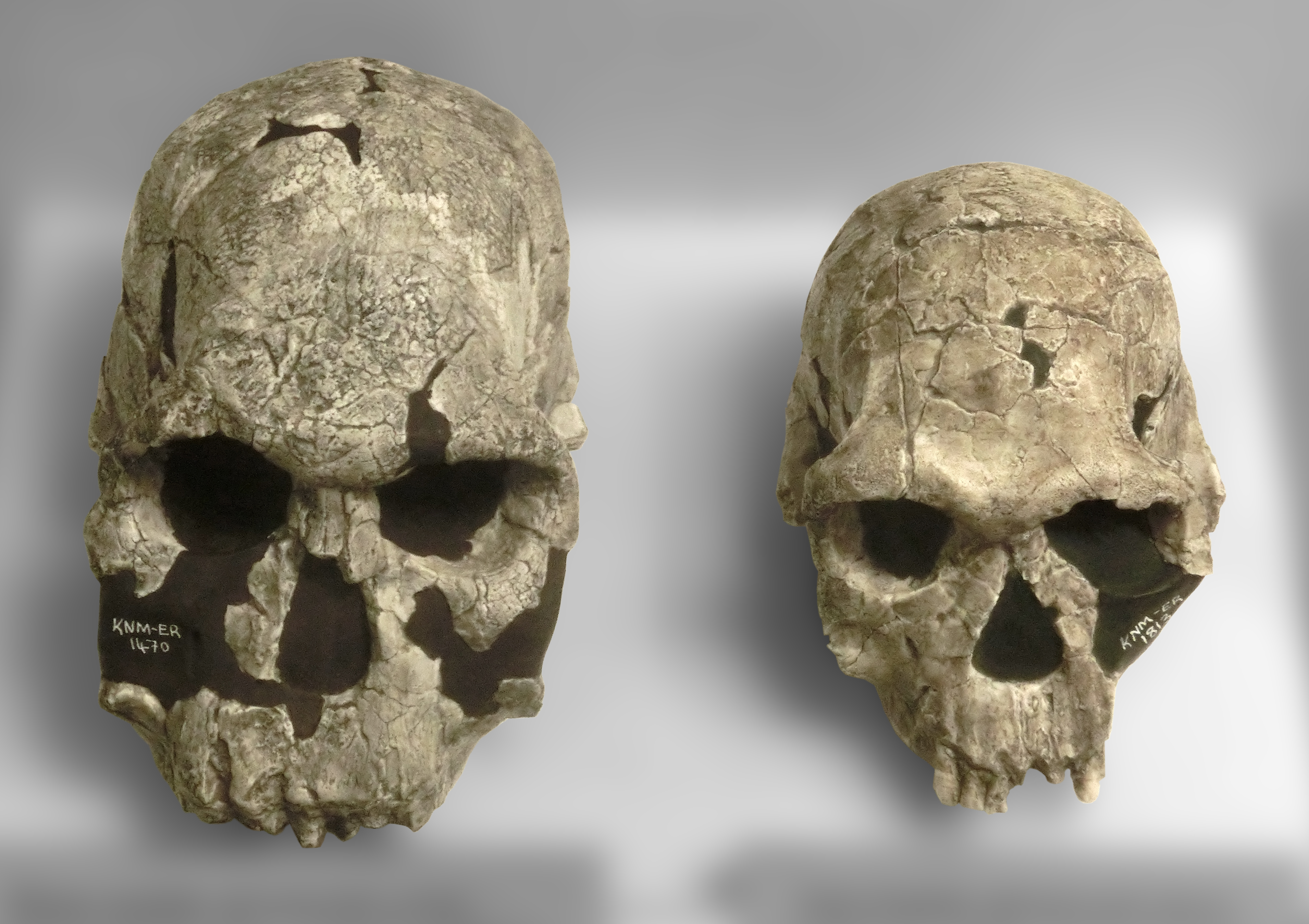 Homo rudolfensis and Homo habilis (casts of skulls) at Göteborgs Naturhistoriska Museum, Göteborg, Västra Götaland County, Sweden. The skull to the left is a cast of the skull KNM-ER 1470. The skull to the right is a cast of the skull KNM-ER 1813. Both are found at Koobi Fora in Kenya.